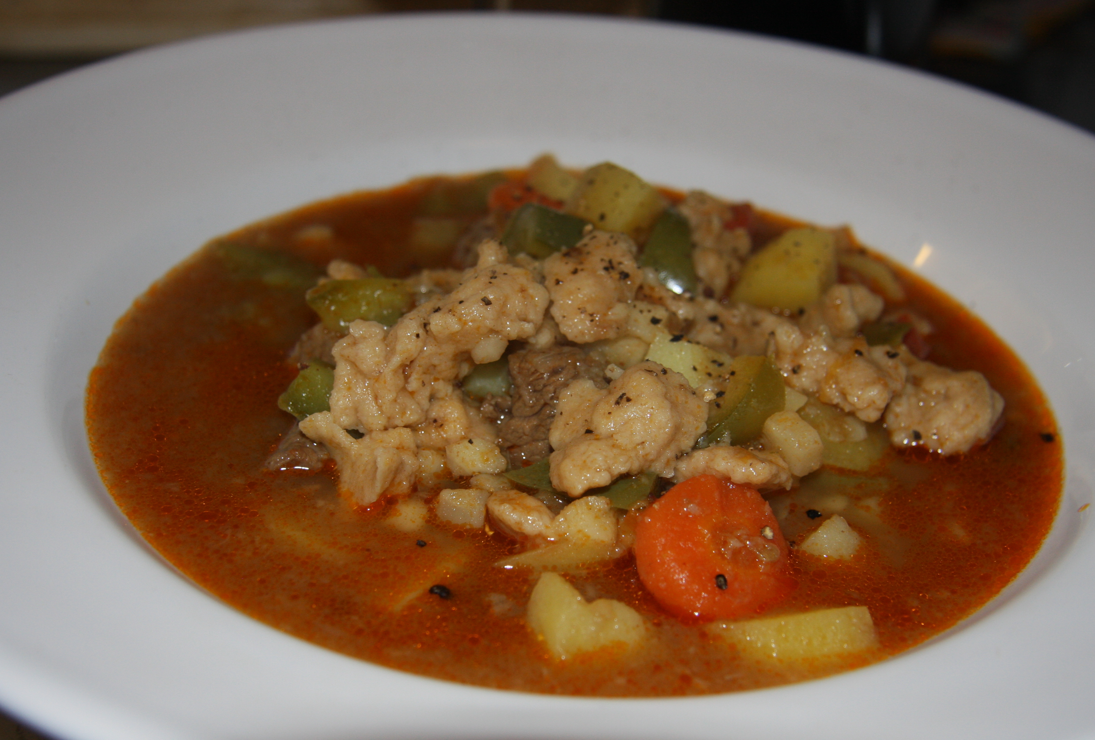 A bowl of Hungarian Gulasch soup made by me.